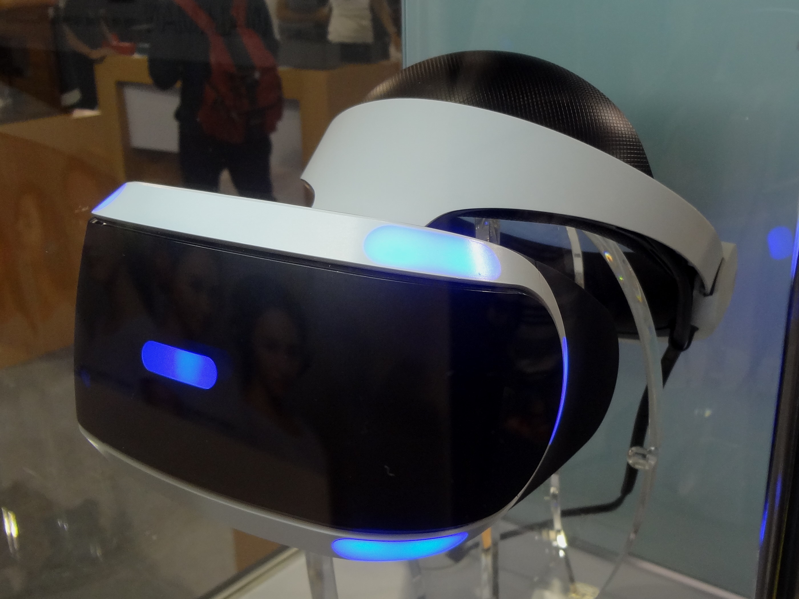 中文（台灣）: 2016年台北資訊月，台灣索尼攤位展示的PlayStation VR樣品。